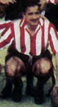 This is a photograph of Ricardo Infante during his time with Estudiantes de La Plata in Argentina. He played for the club between 1942 & 1960.